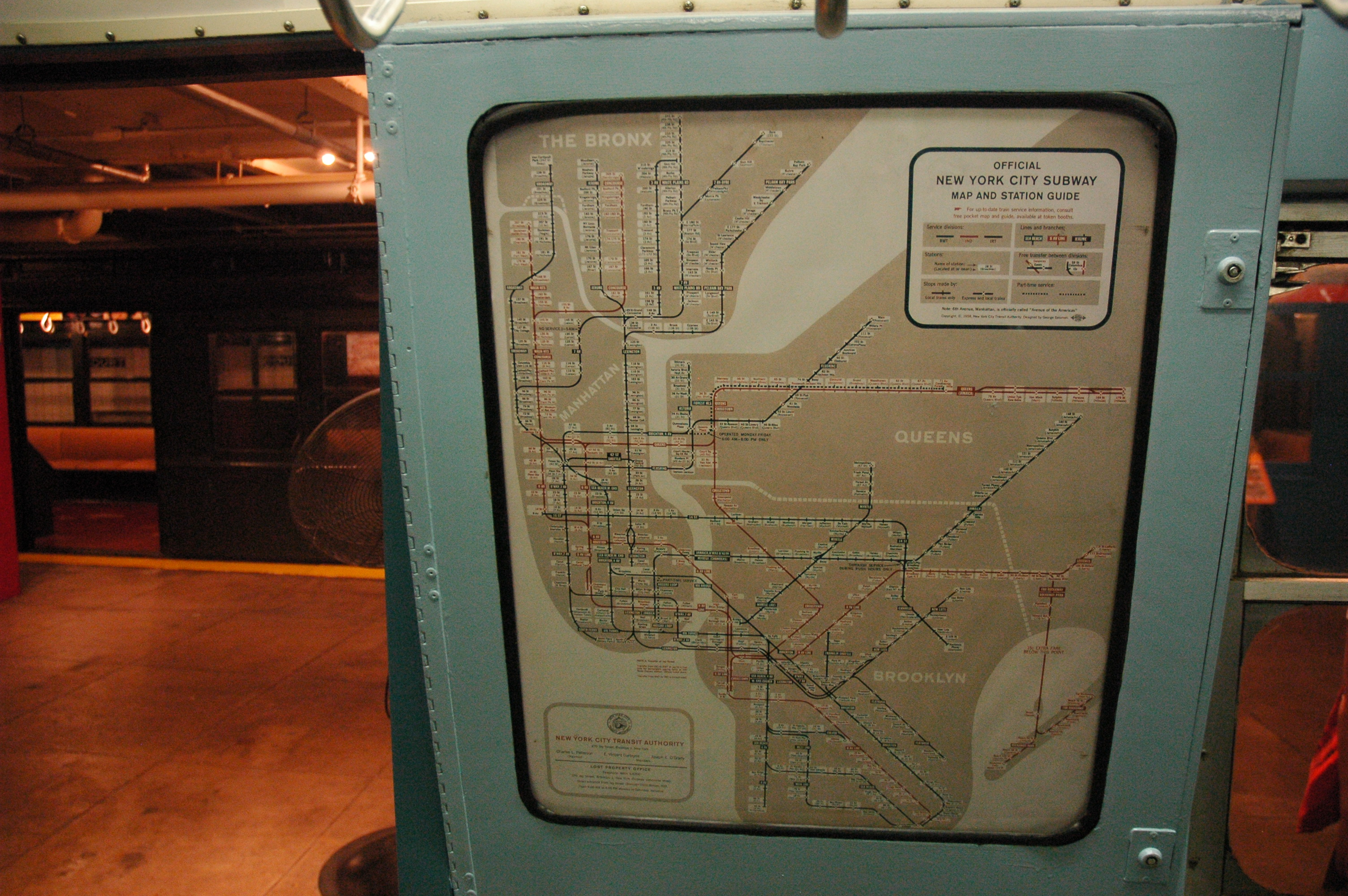 Vintage NYC MTA subway trains.